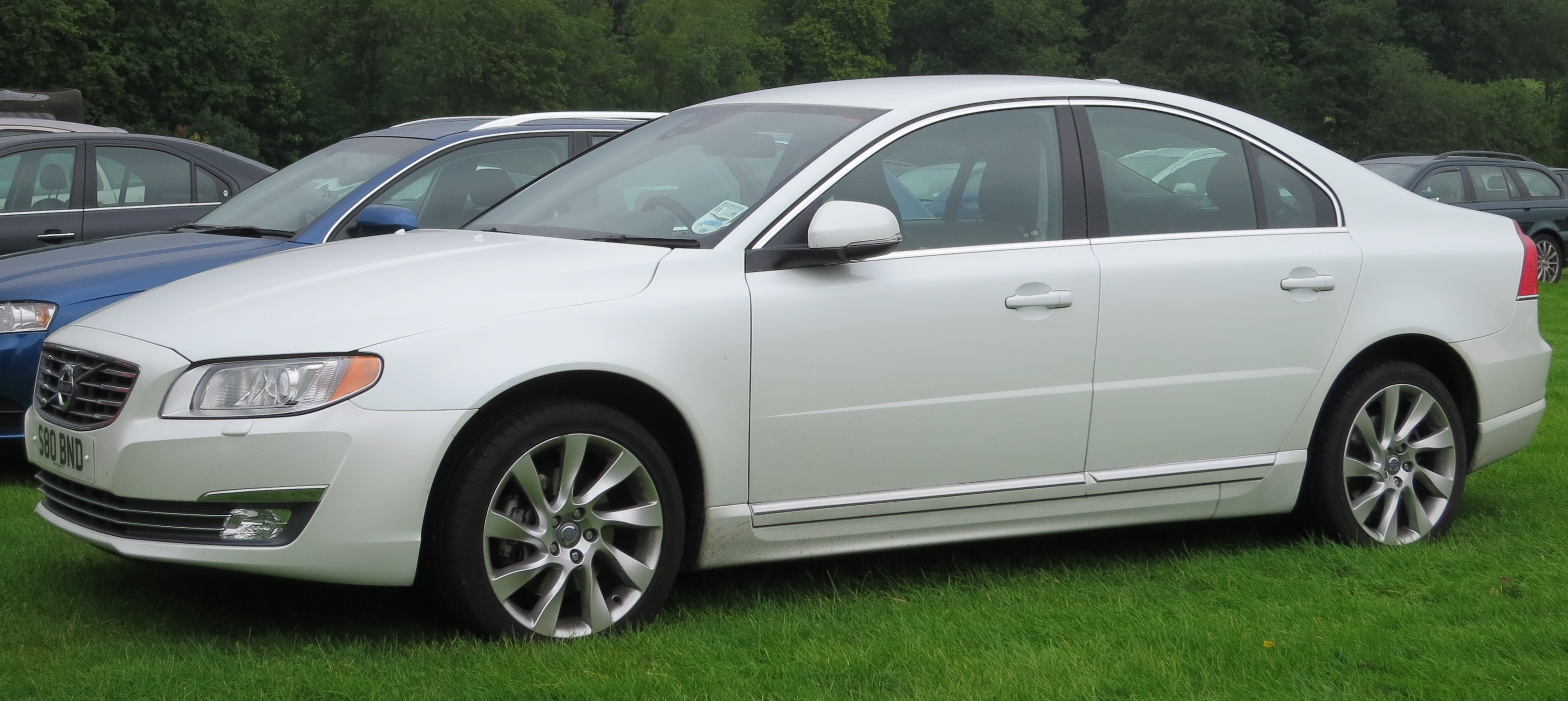 Volvo S80 (2013)